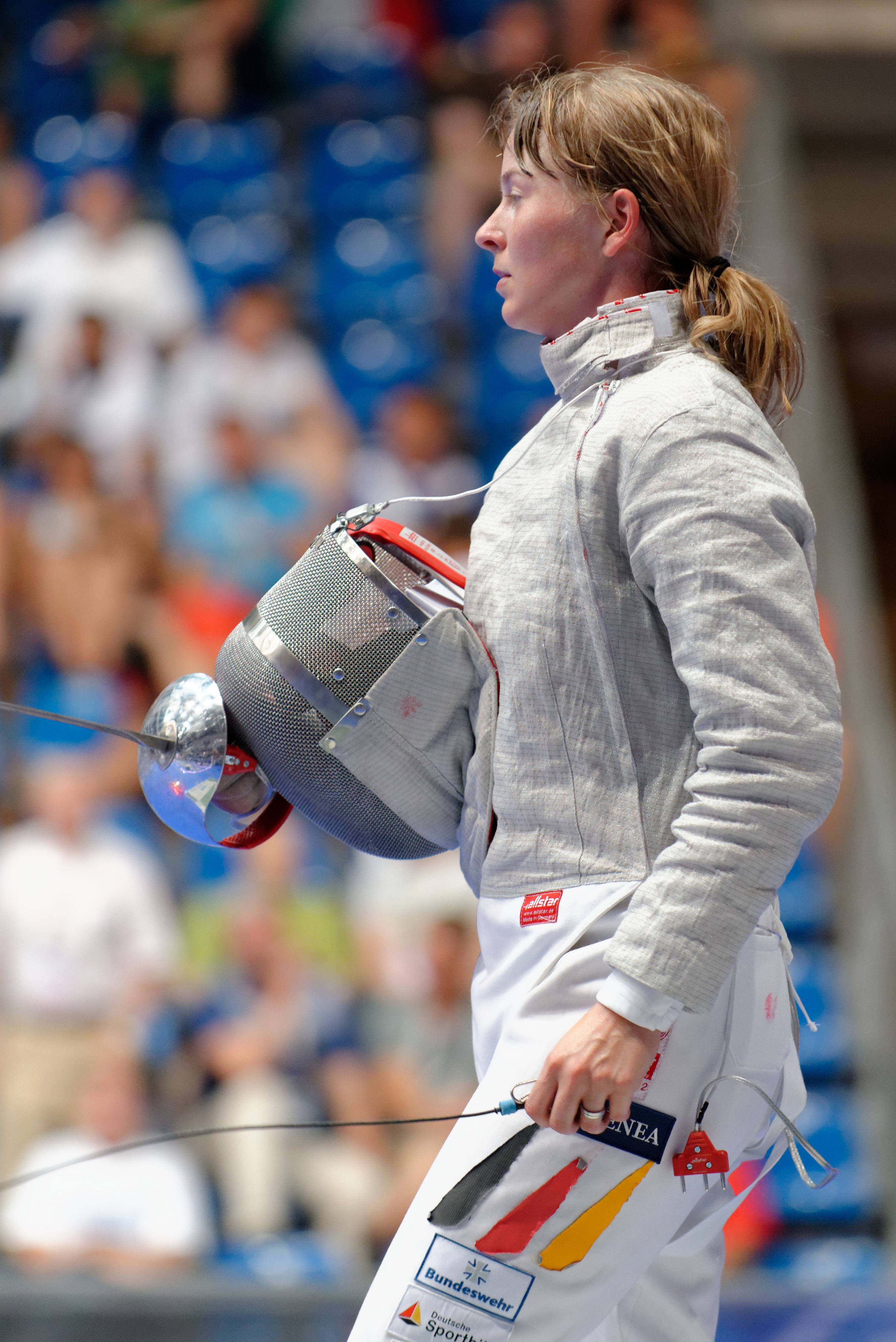 Germany's Stefanie Kubissa at the women's sabre event of the 2013 World Fencing Championships 2013 at Syma Hall in Budapest on 9 August 2013.